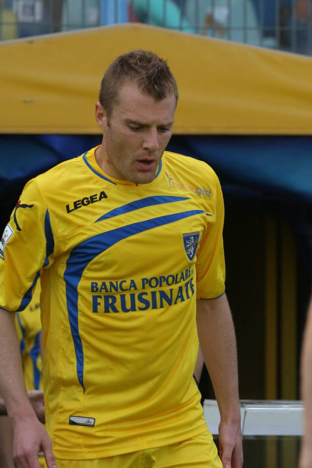 Matteo Ciofani, Frosinone football player.